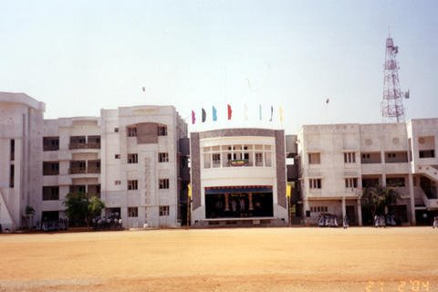 smb school, dindigul